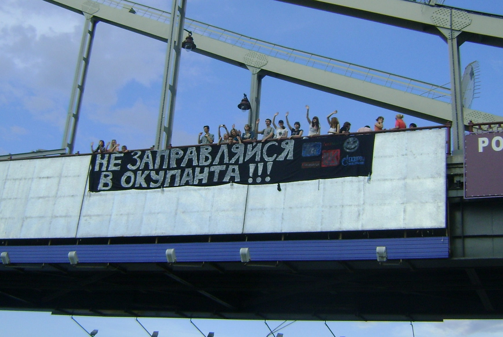 The action, the campaign «Do not buy Russian goods!»